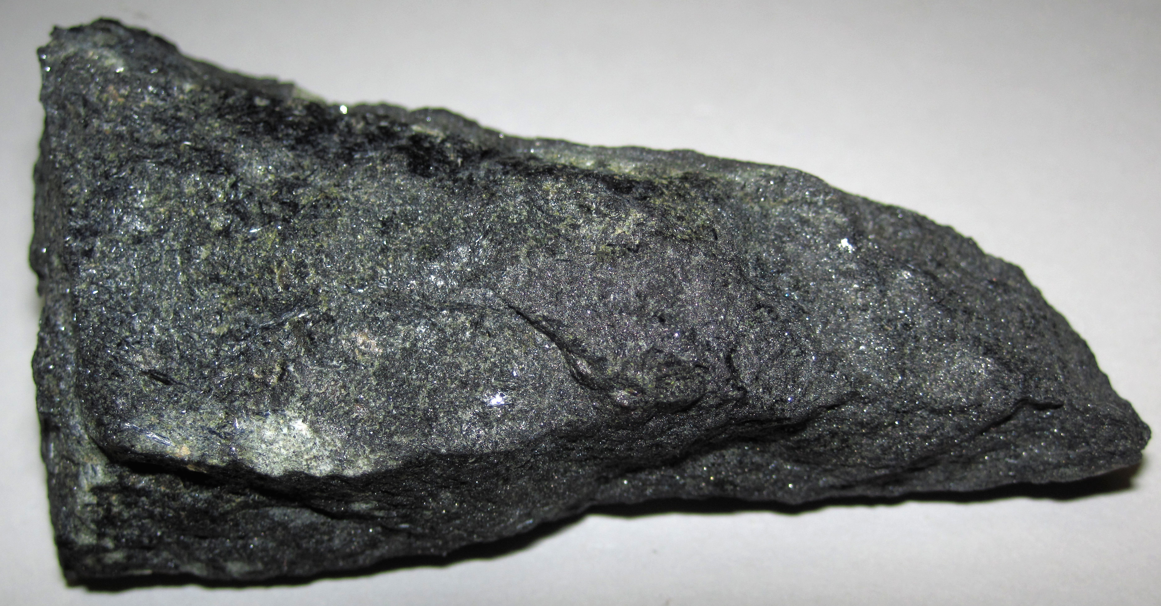 Meta-BIF (meta-banded iron formation) (6.3 cm across) from the Precambrian of Sweden. This strongly magnetic rock is a multiply-metamorphosed banded iron formation that comes from the waste rock piles of old Swedish iron mines (active from the 1100s to the late 1870s). The rock is composed principally of magnetite, epidote, holmquistite amphibole, and carbonate. Holmquistite is a rare amphibole that contains lithium - it's chemical formula is Li2Mg3Al2Si8O22(OH)2 - lithium magnesium hydroxy-aluminosilicate. On this rock's top surface, the holmquistite consists of very dark bluish needles, best seen near the lower left corner. This particular rock comes from the type locality for holmquistite. This rock has been metamorphosed more than once. A previously-existing meta-BIF was contact metamorphosed by intrusion of Nyköpingsgruvan pegmatitic granites and lithium pegmatites during the late Paleoproterozoic, at 1.8 Ga. Locality: spoils piles at Utö Mines, Utö, Stockholm Archipelago, Haninge Municipality, Stockholm County, eastern coastal Sweden. Reference on the geology of Utö, Sweden: Mansfeld, J. 2012. The Geology of Utö, Excursion Guide. 9 pp.